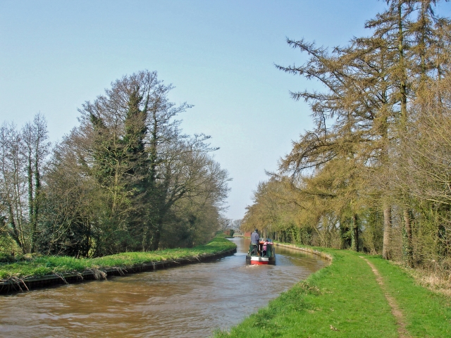 Llangollen Canal, Marbury